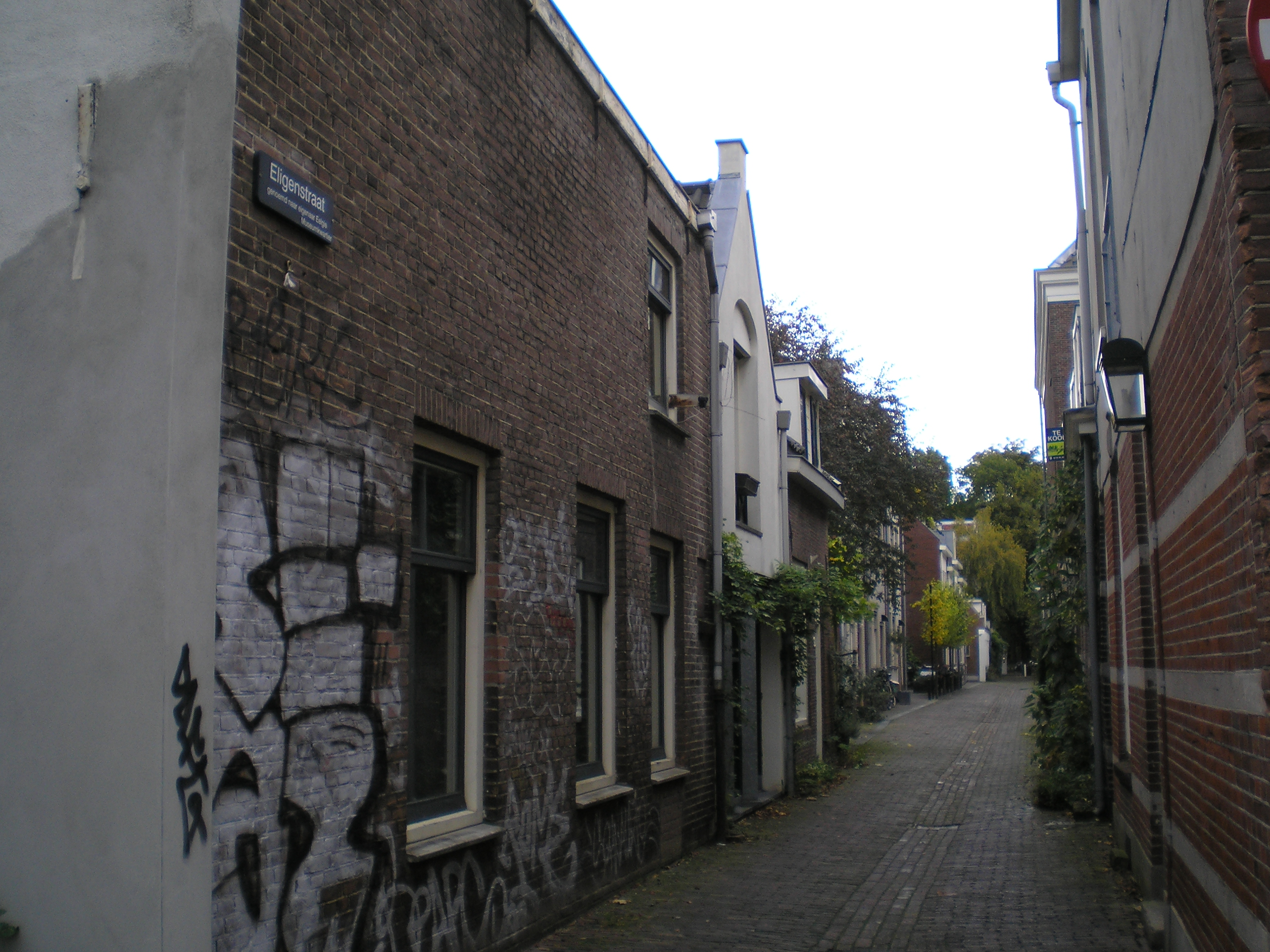 Eligenstraat in Utrecht in the Netherlands